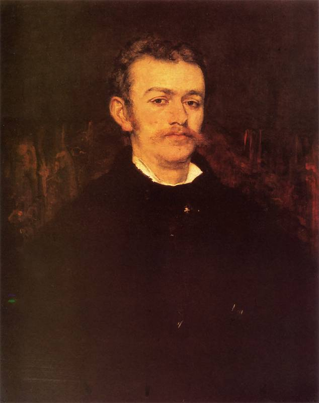 Portrait of Władysław Tarnowski, 1877. Oil on canvas. 79 x 63 cm. Muzeum Śląskie in Katowice.